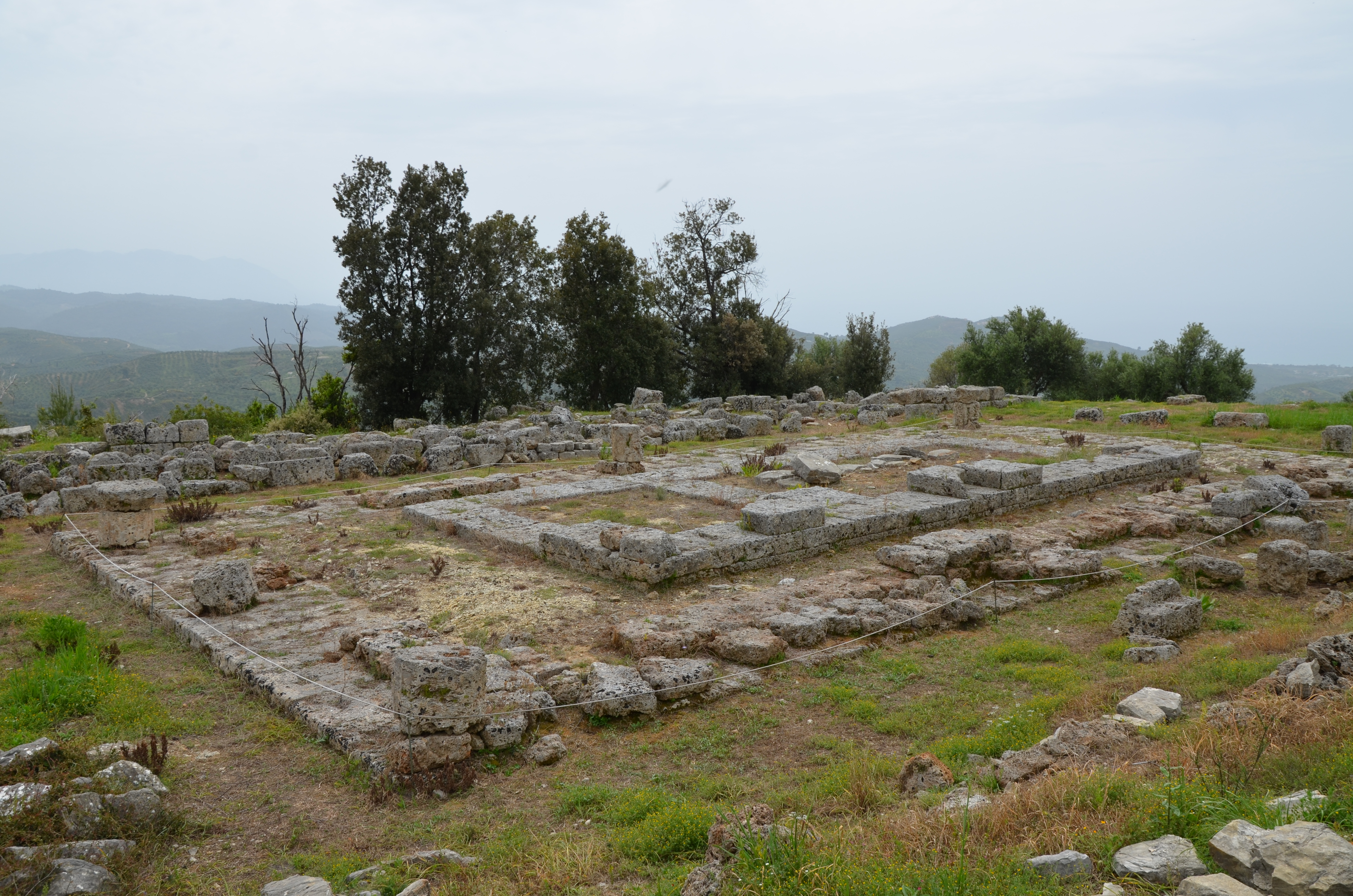 Temple of Demeter, dated to the 1st half of the 4th century BC, Lepreon, Greece